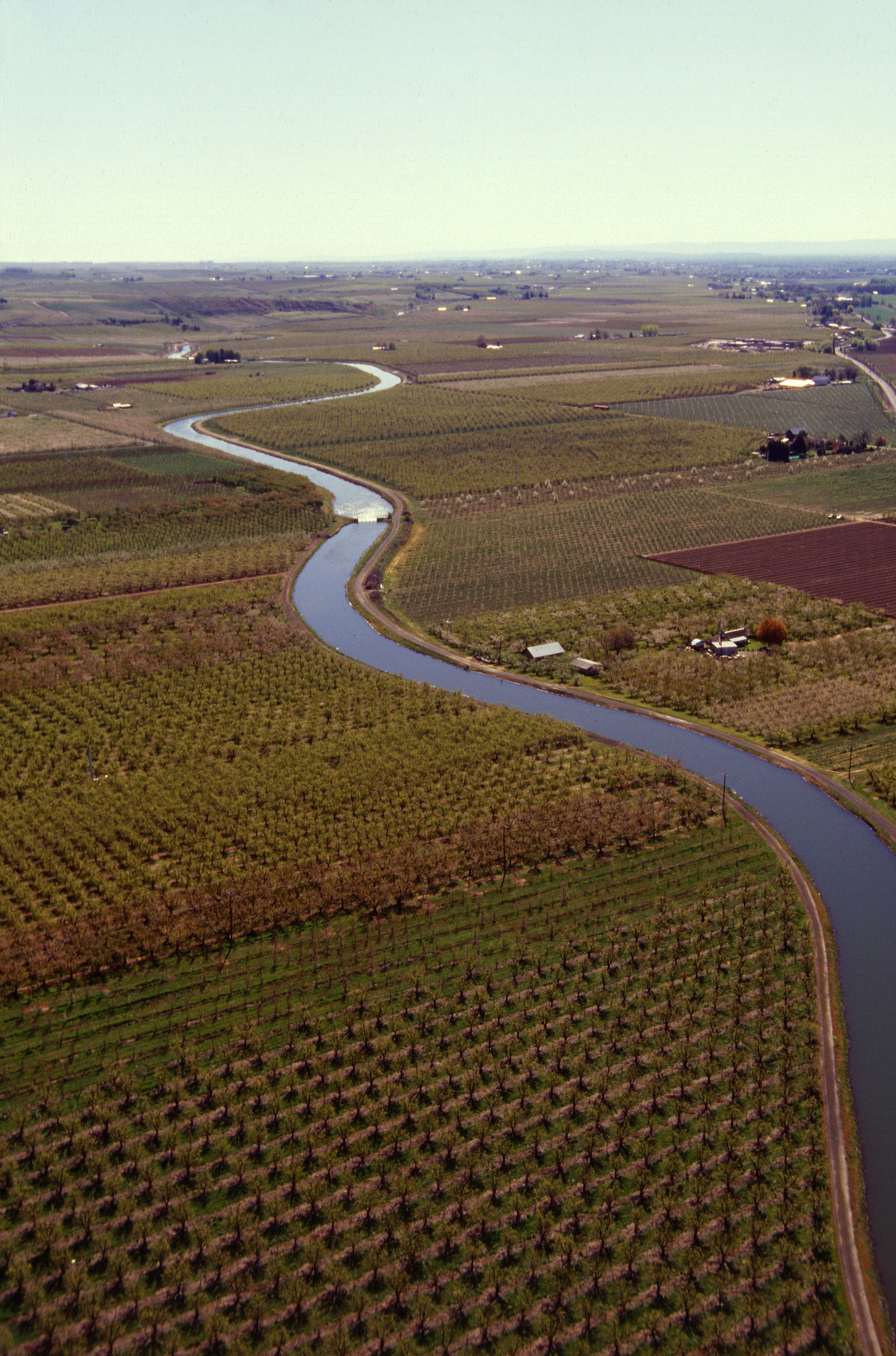 Aerial view of apple and pear orchards near Yakima, Washington, in the Yakima River valley. Note that this isn't the Yakima River, but a canal that feeds from the river.